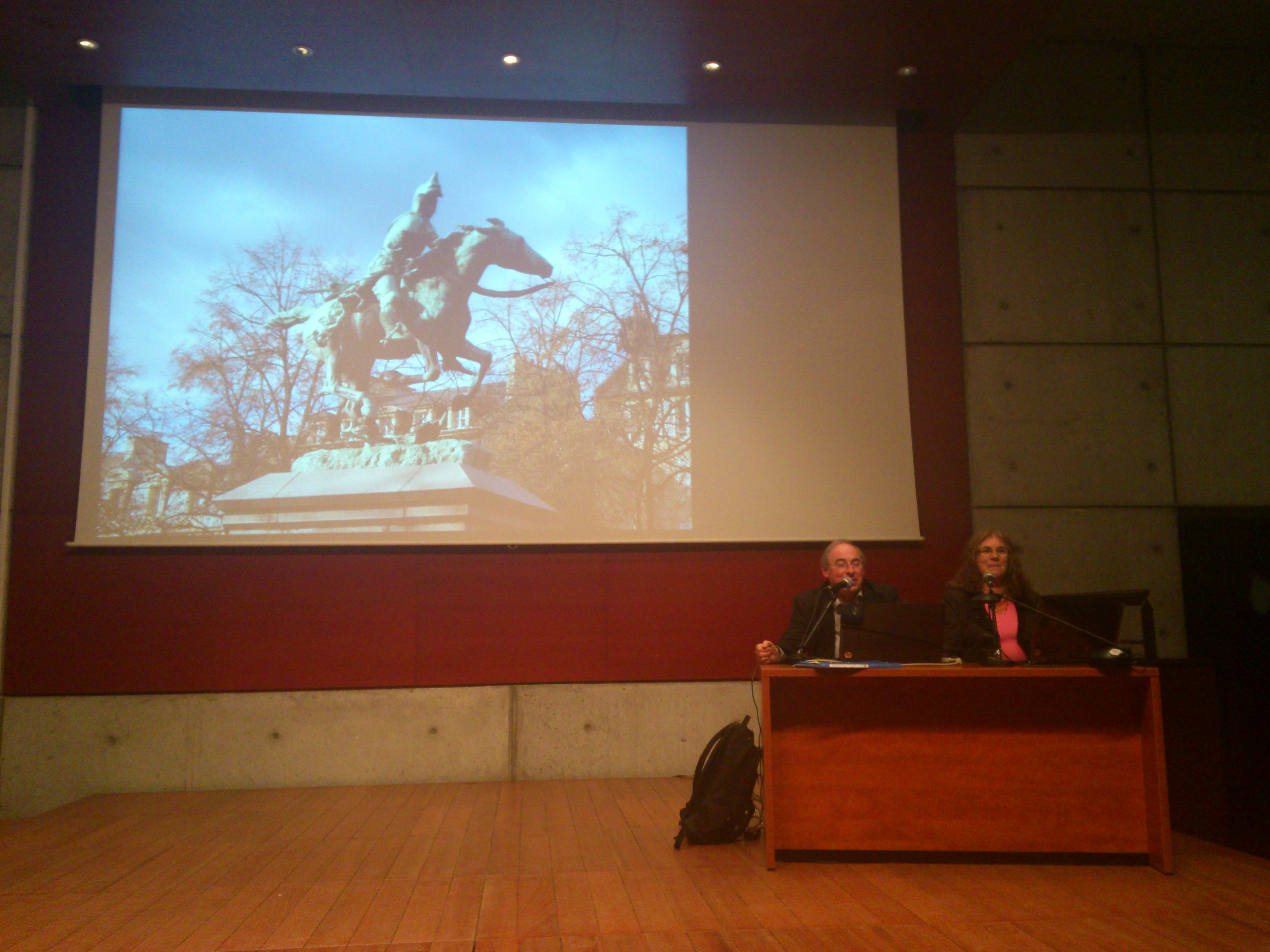 François Neveux and Claire Ruelle in Caen castle